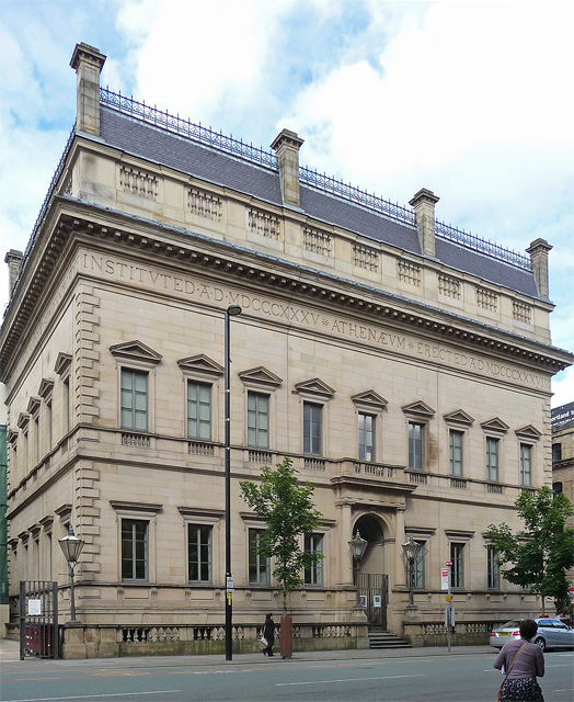 "As Manchester's first palazzo, it can claim to be the inspiration for a genre which Manchester was to make her own as the model for commercial warehouses", wrote Pevsner. By Charles Barry, 1836-37, and similar to his London Reform clubs.